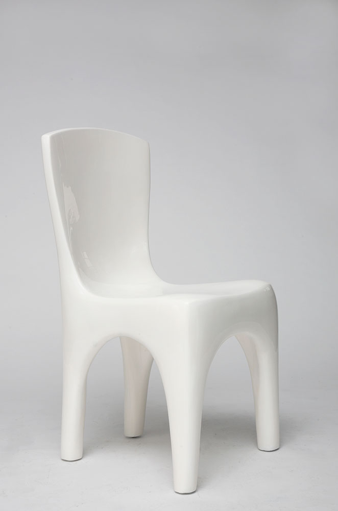 A Chair By Jaques Jarrige